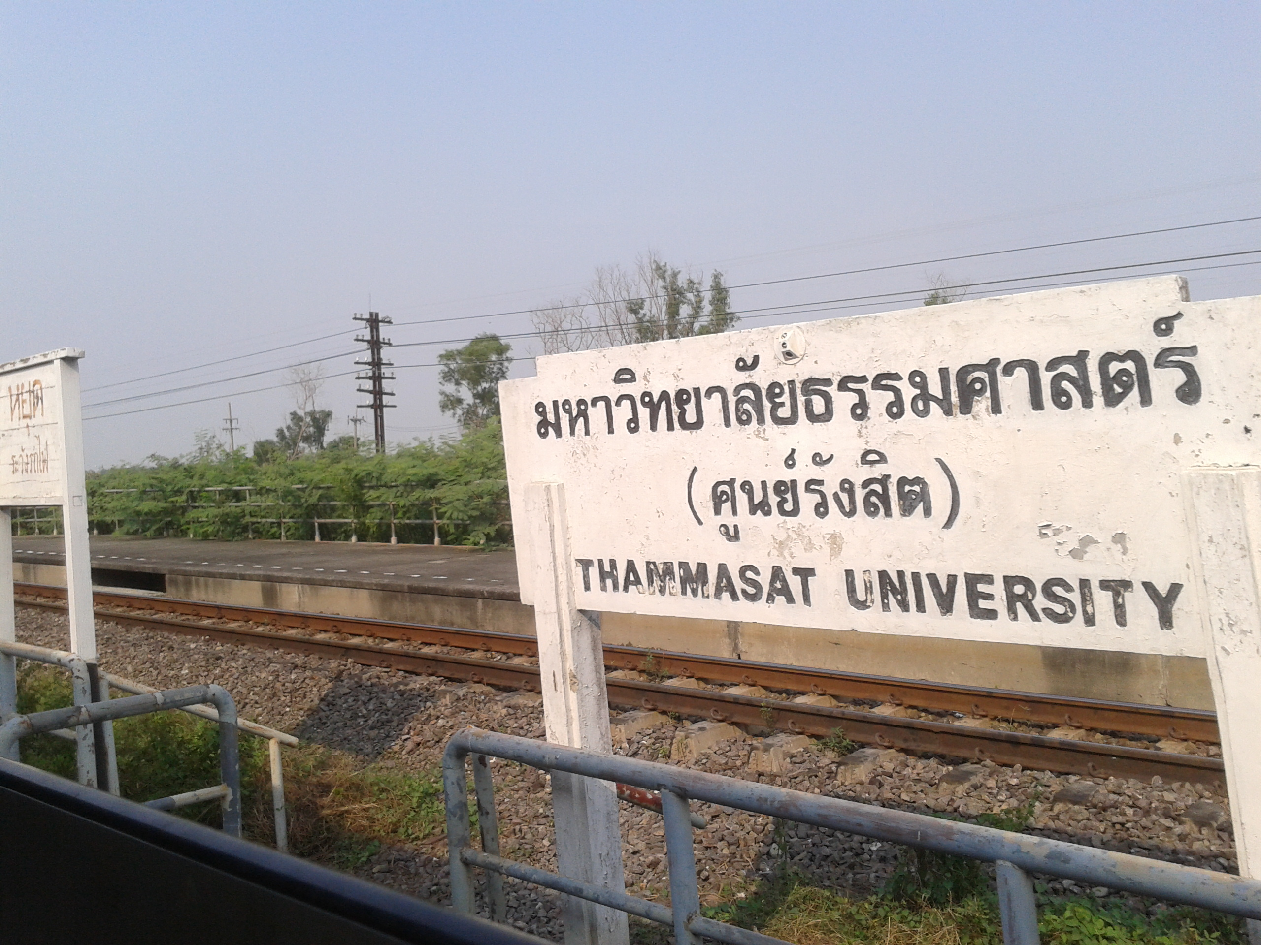 Thammasat University railway station on the State Railway of Thailand mainline between Bangkok and Ayutthaya.